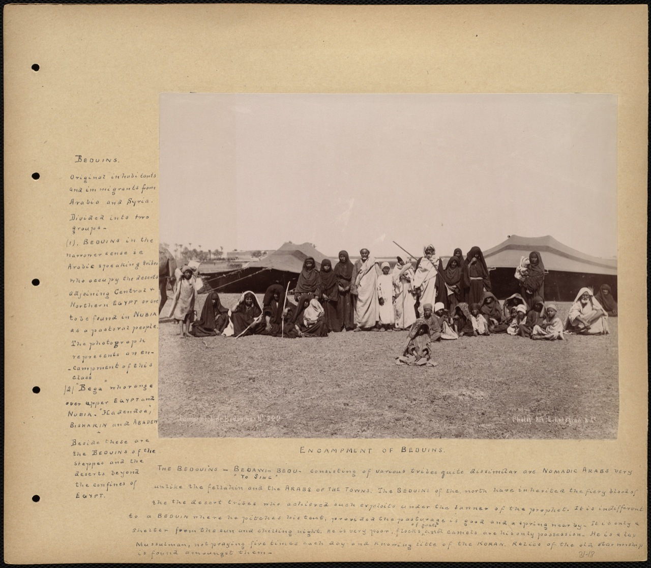 BPLDC no.: 08_04_000202 Page Title: Encampment of Beduins. Collection: William Vaughn Tupper Scrapbook Collection Album: On the Nile. Cairo to Luxor. Call no.: 4098B.104 v31 (p.18) Creator: Tupper, William Vaughn Photographer: G. Lékégian & Cie. Genre: Scrapbooks; Albumen prints Extent: 1 photographic print mounted on page : albumen ; page 33 x 39 cm. Description: Scrapbook page consists of one photograph of Beduin people and there encampment. The annotations included on this page describe the lifestyle of the Beduin people of Egypt. Transcription: The Bedouins- the Bedawi-Bedu- consisting of various tribes quite dissimilar are Nomadic Arabs very unlike the fellahin and the Arabs of the Towns. The Beduins of the north have inherited the fiery blood of the desert tribes who achieved such exploits under the banner of the prophet. it is indifferent to a Beduin where he pitches his tent, provided the pasturage is good and a spring nearby- It is only a shelter from the sun and chilling night. He is very poor, flocks of goats, and camels are his only possesion- He is a lax Mussulman, not praying five times each day and knowing little of the Koran. Relics of the old star worship is found amounsgst them, Notes: Page description supplied by cataloger, derived from captions and/or annotated information. ; Caption on image: Campemed de Beduins No. 322. BPL Department: Print Department Rights: No known restrictions.